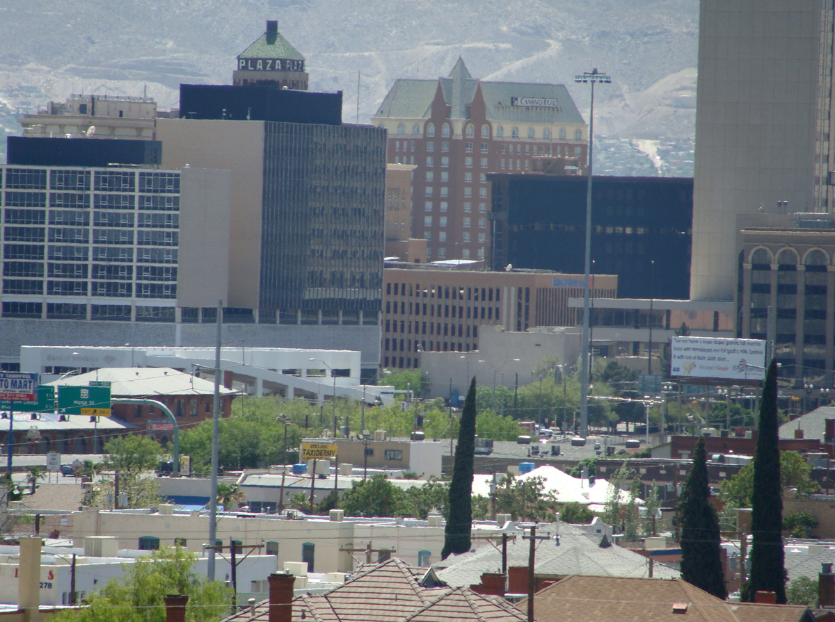 Downtown El Paso, Texas